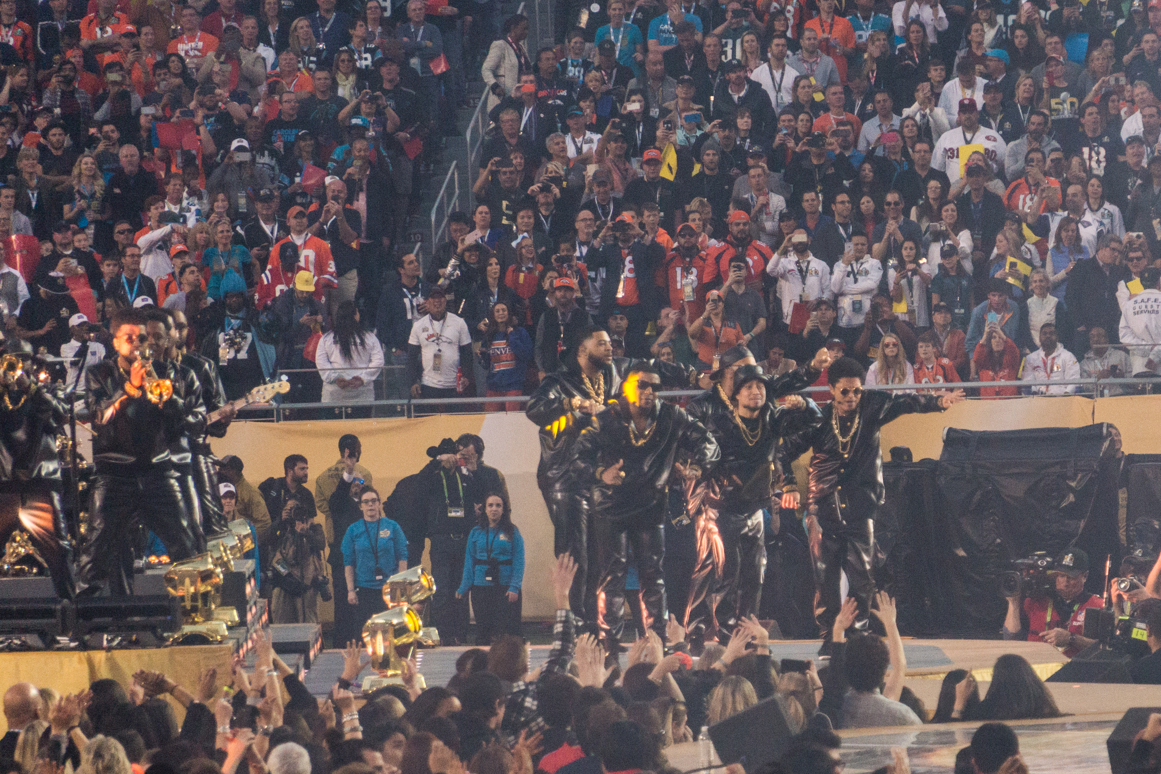 Bruno Mars performs at the Super Bowl 50 halftime show, as a special guest for Coldplay, who headlined.